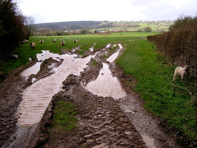 Farmland, Broadoak. Recent rain has left soggy ground. In the background the hills are the eastern edge of the Forest of Dean.